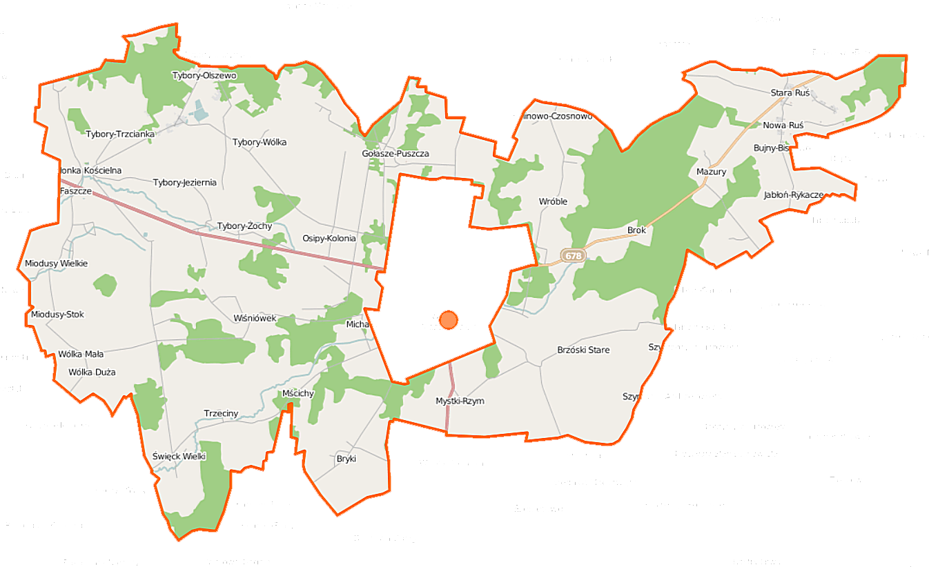 Map of Gmina Wysokie Mazowieckie, Poland This map of Wysokie Mazowieckie (gmina wiejska) was created from OpenStreetMap project data, collected by the community. This map may be incomplete, and may contain errors. Don't rely solely on it for navigation. Border coordinates52.992522.3345←↕→22.704652.8559